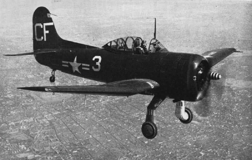 A U.S. Navy Curtiss SC-1 Seahawk scout plane over Shanghai (China) in 1948. This aircraft was assigned to the Cleveland-class cruiser USS Duluth (CL-87). It was transported through the streets of Shanghai and fitted with wheeled undercarriage instead of its normal floats. The pilot was Ensign Baar, USN.